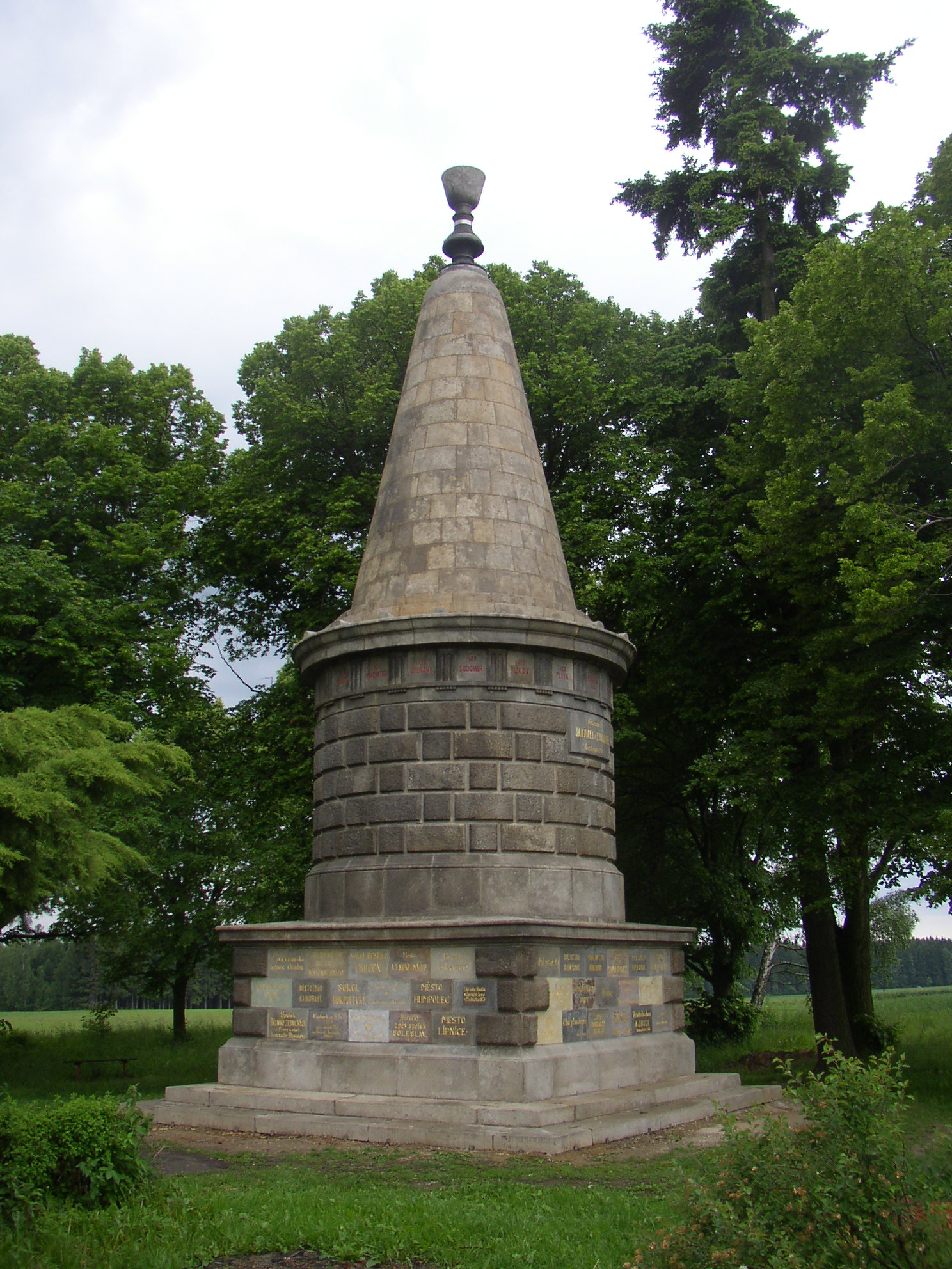 Žižka's Tumulus next to road from Žižkovo Pole to Přibyslav, Czech Republic, commemorates place of death of Hussite military leader Jan Žižka of Trocnov in 1424. The memorial designed by Antonín Wiehl was erected in 1874.